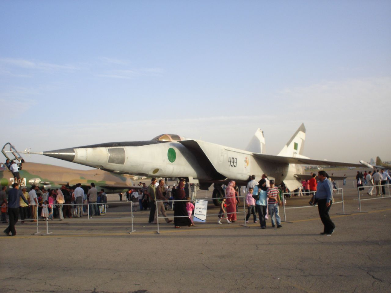 Mikoyan-Gurevich MiG-25RB working in Libyan Air Force.